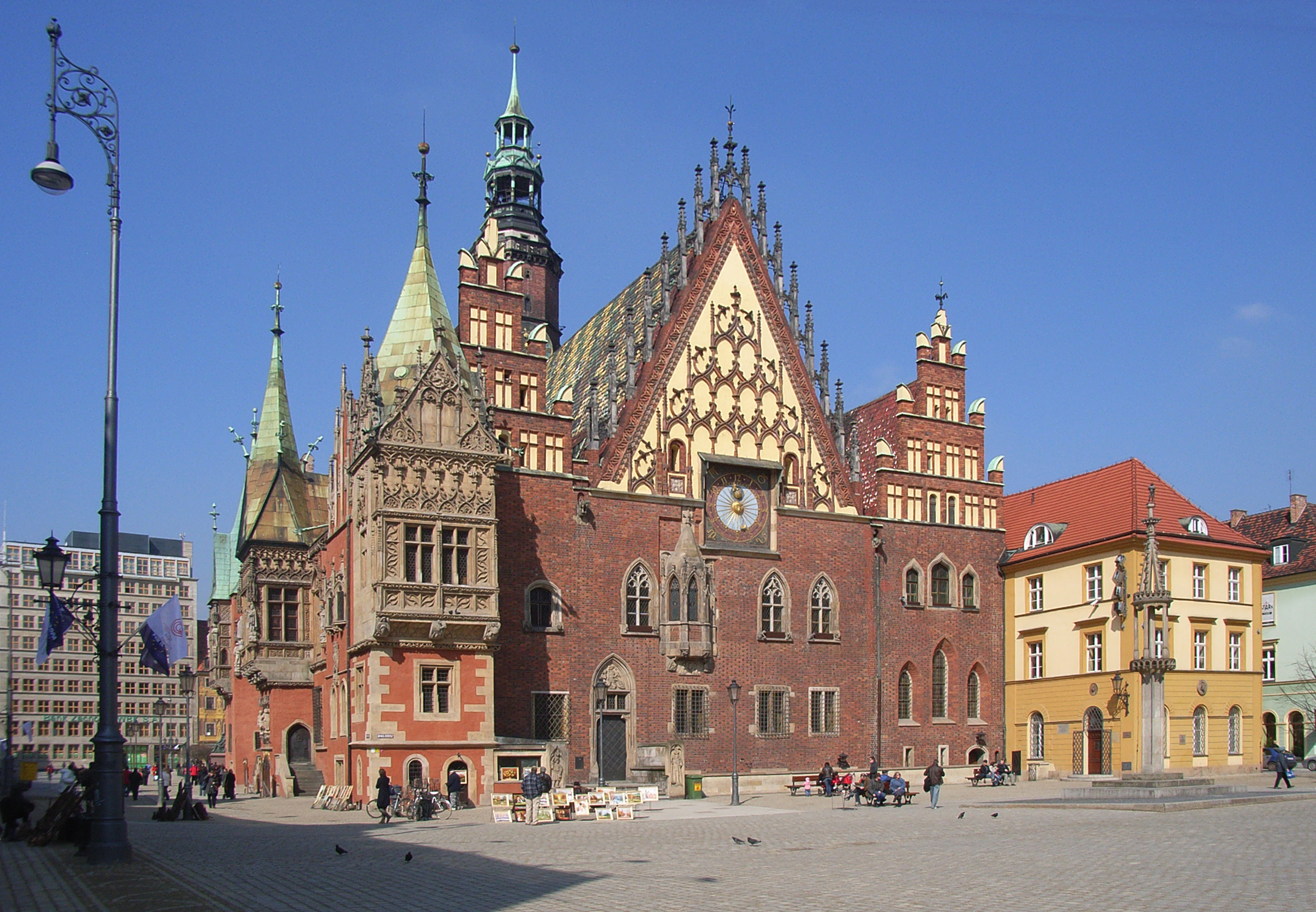 town hall of Wroclaw, Poland